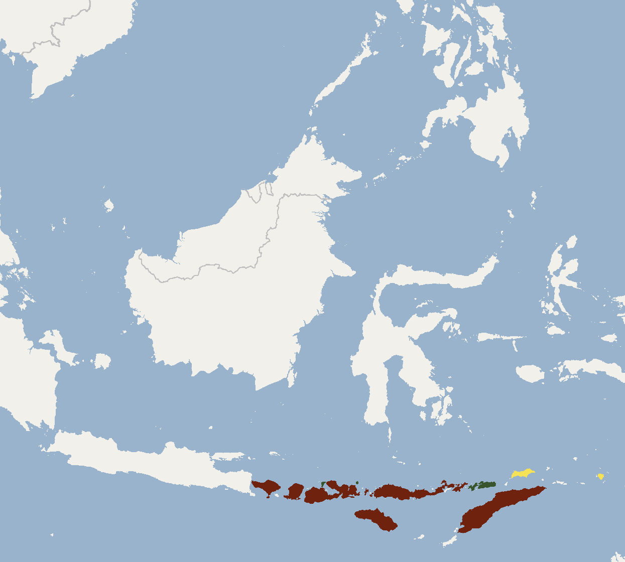 According to Kitchener & Al., 1991